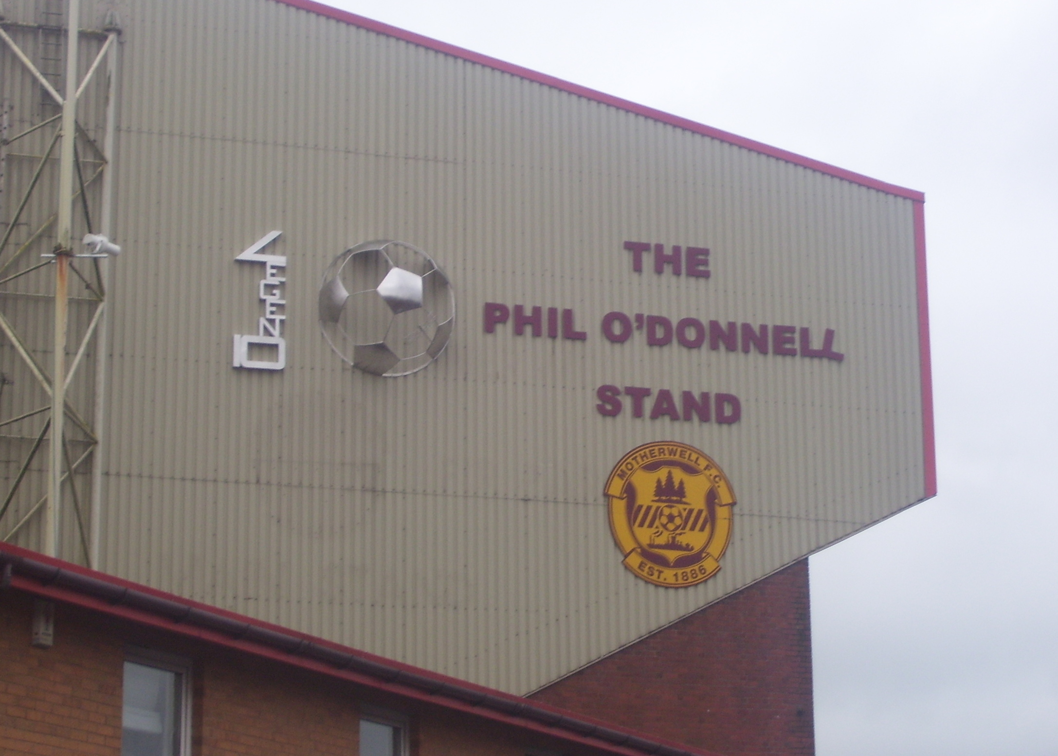 Phil O'Donnell Stand